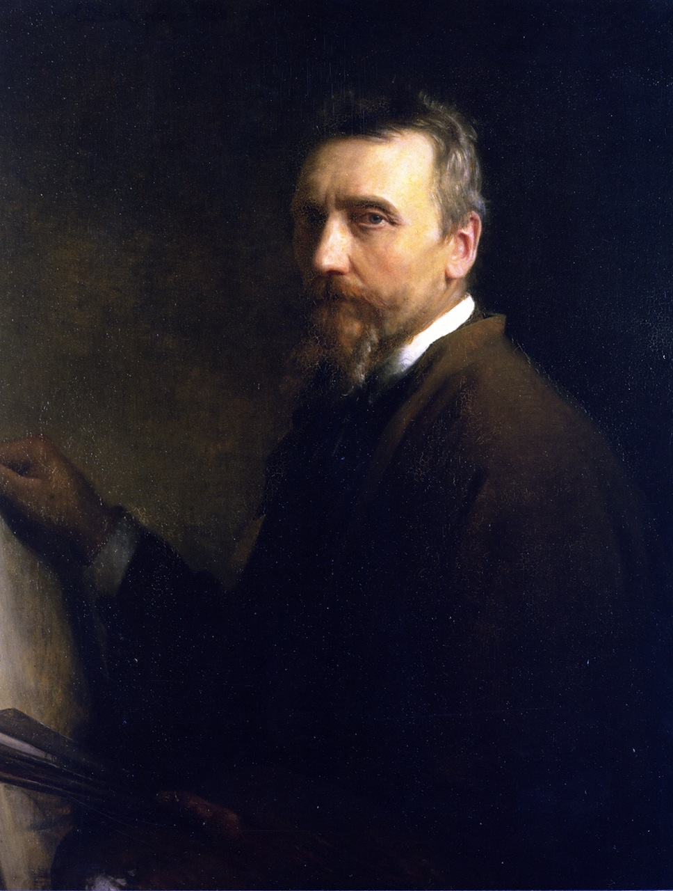 Self-Portrait